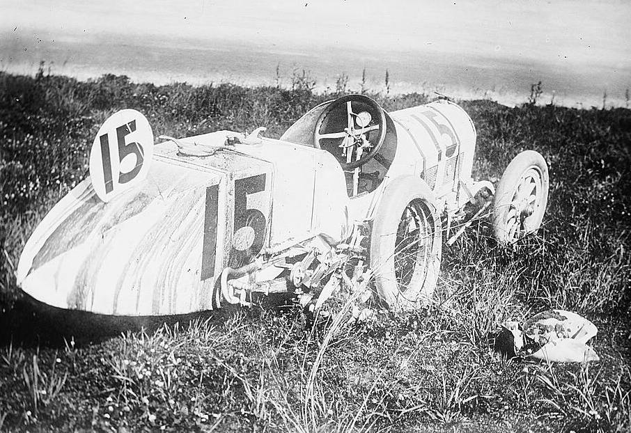 Bob Burman's car after accident at the 1912 Indianapolis 500.